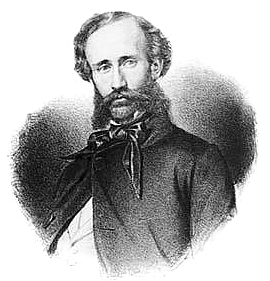 Portrait of Swedish artist Carl d´Unker (1828-1866). Litoghraphy by Abraham Lundquist